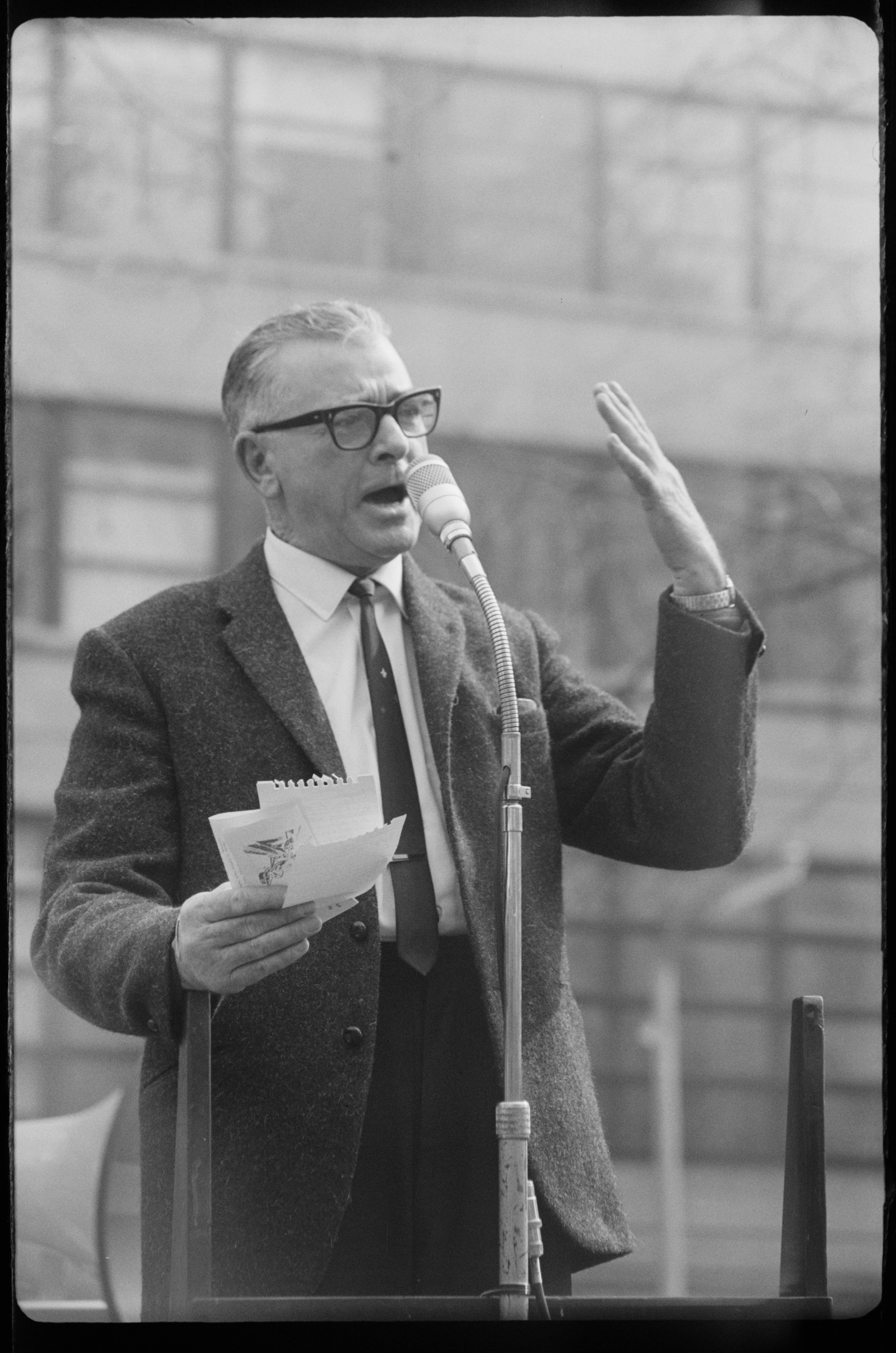 Ted Roach, the Assistant General Secretary of the Waterside Workers Federation, speaking at Wynyard Park, central Sydney, August 1965. Roach was speaking alongside other unionists as part of a "Budget Lobby Train to Canberra"